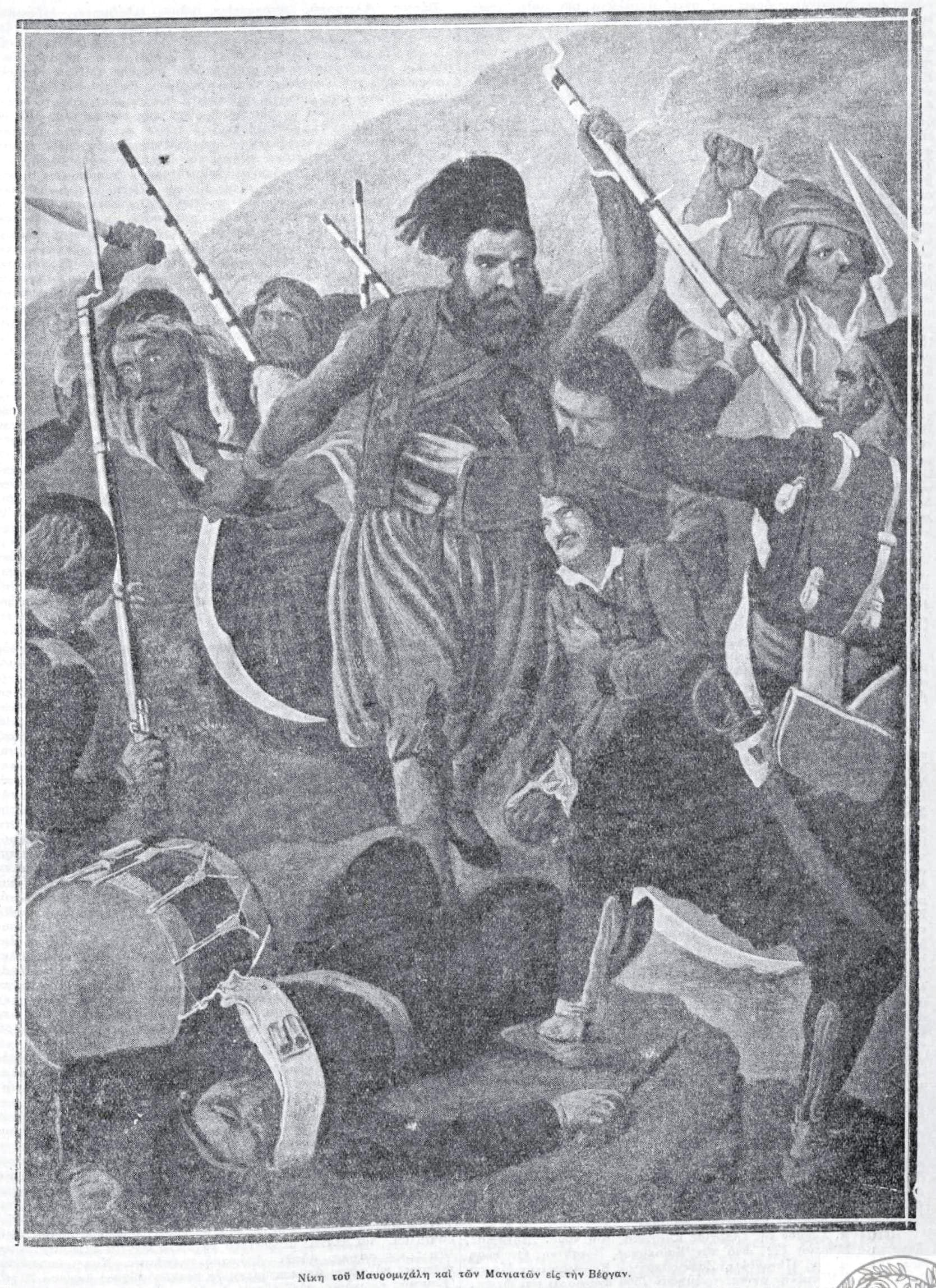 The Battle of Berga, painting by Peter von Hess